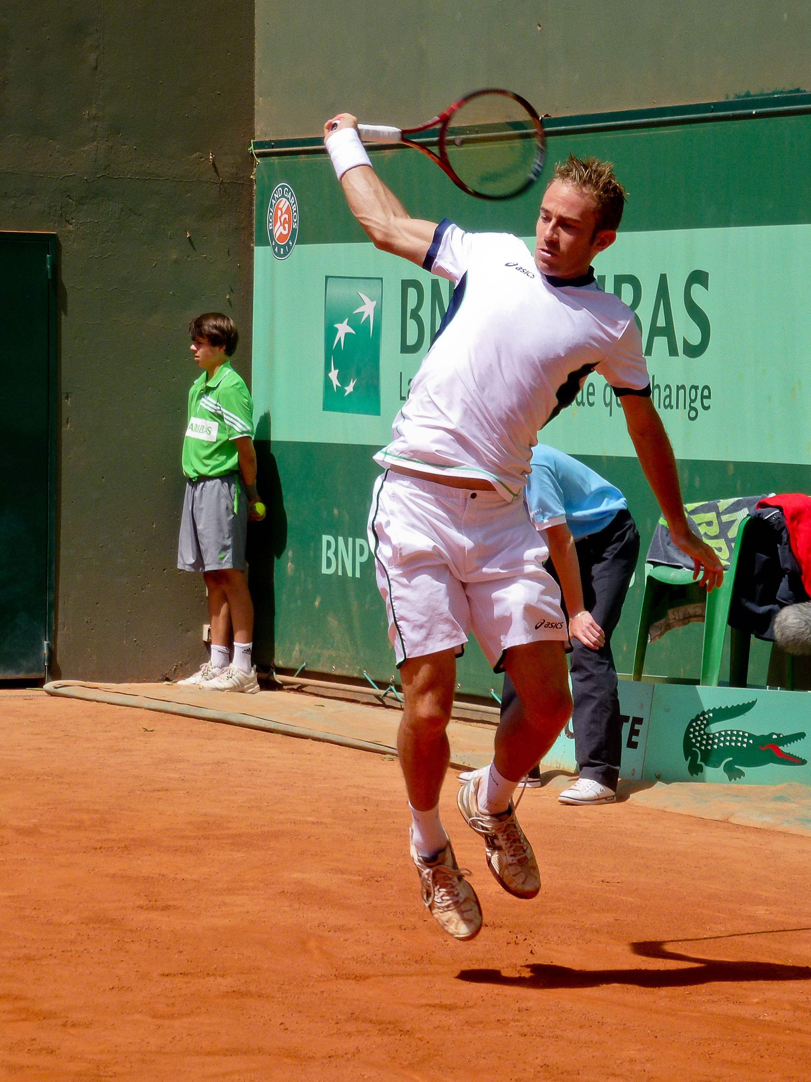 Volandri hitting a backhand against Clement in their first round match at Roland Garros in 2011